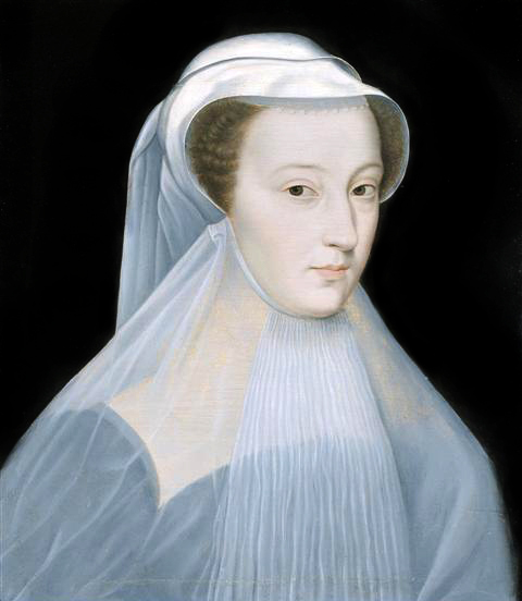 Mary Queen of Scots in white mourning of Queens of France.label QS:Lit,"Maria Stuarda col lutto bianco delle regine di Francia." label QS:Len,"Mary Queen of Scots in white mourning of Queens of France."